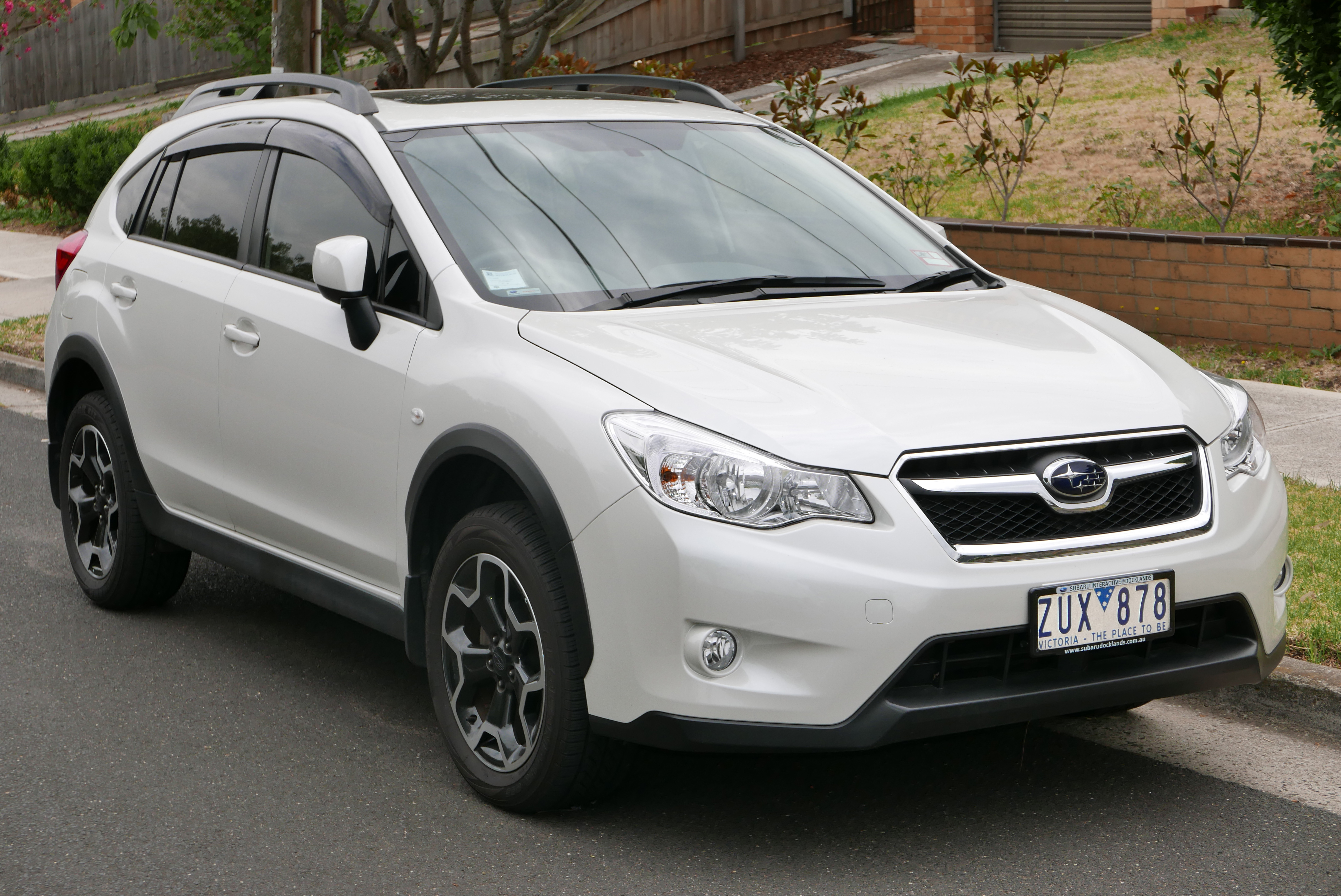 2013 Subaru XV (GP7 MY13) 2.0i-L hatchback. Photographed in Pascoe Vale, Victoria, Australia. Vehicle registration enquiry resultsJurisdictionVictoriaRegistrationZUX878Chassis codeJF1GP7KC5DG031358Engine codeR724933Compliance date2013-06Year of manufacture2013